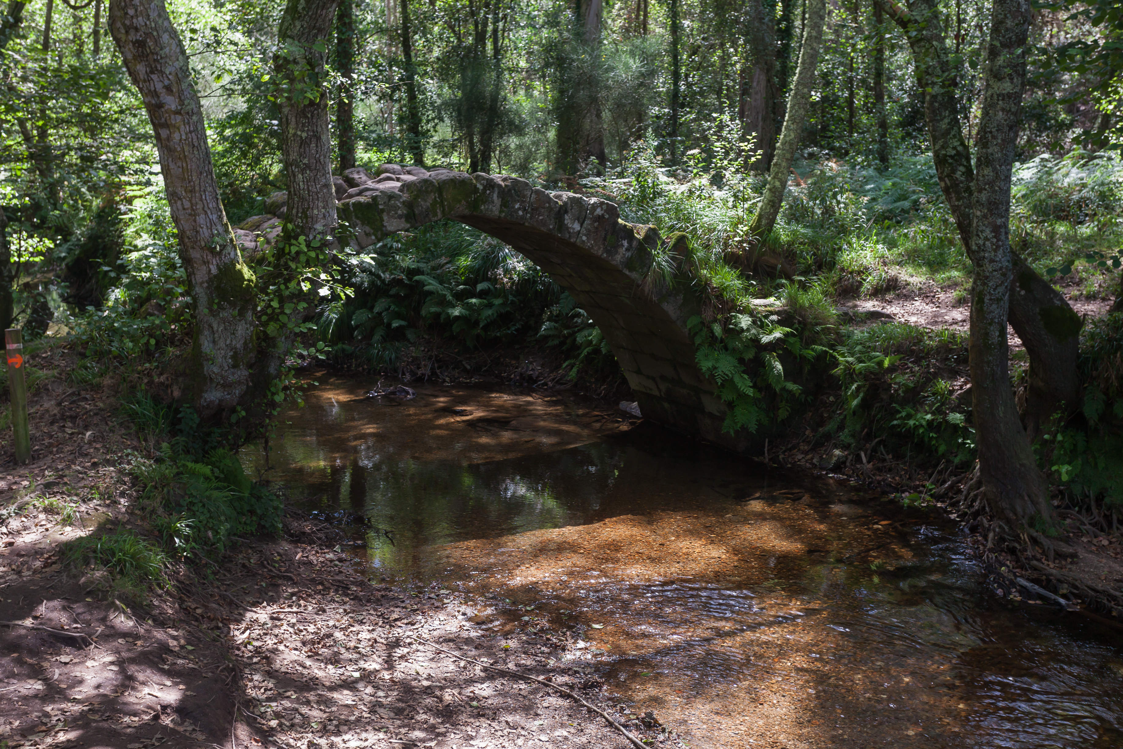 Medieval bridge over Sieira river, Porto do Son, Galicia (Spain)